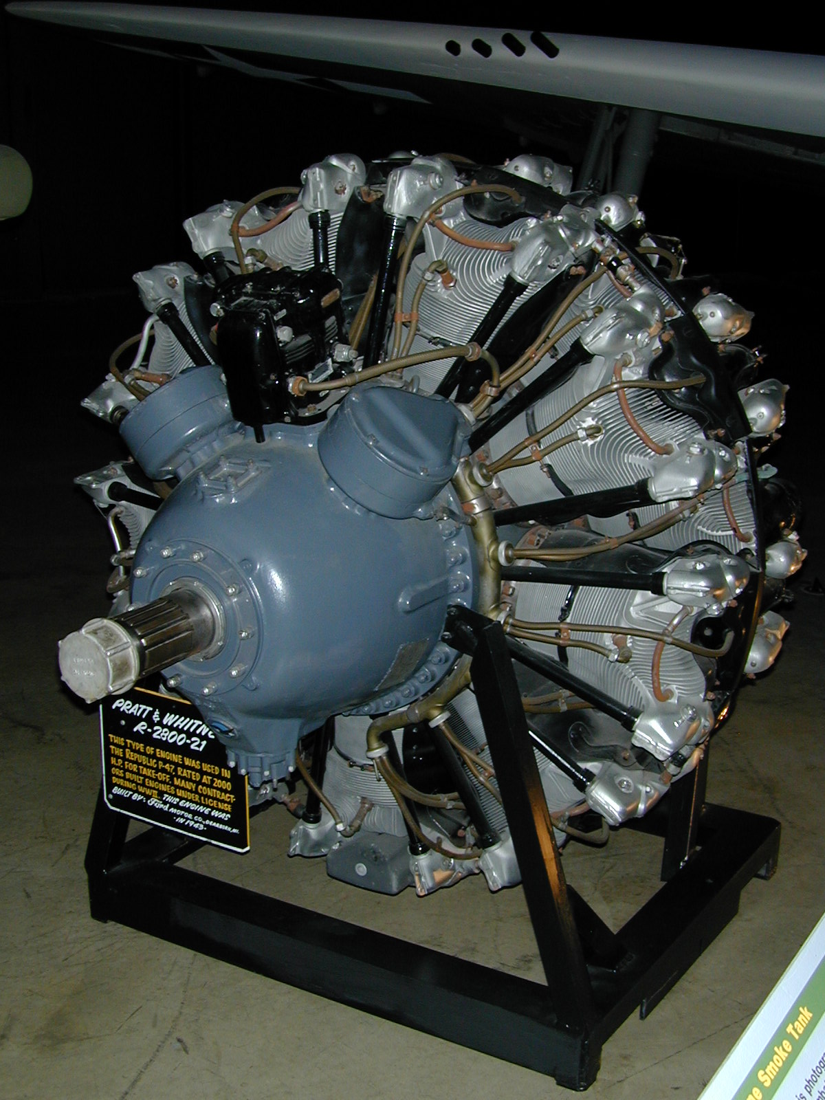 Pratt & Whitney R-2800-21 Radial Engine